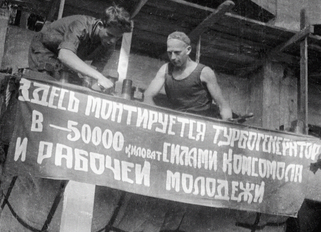 “Building Shatura electrical power station”. The construction site of the Shatura electrical power station, with the poster reading, "50,000KW turbo-generator is being mounted here by the effort of Young Communist League members and other working young people"